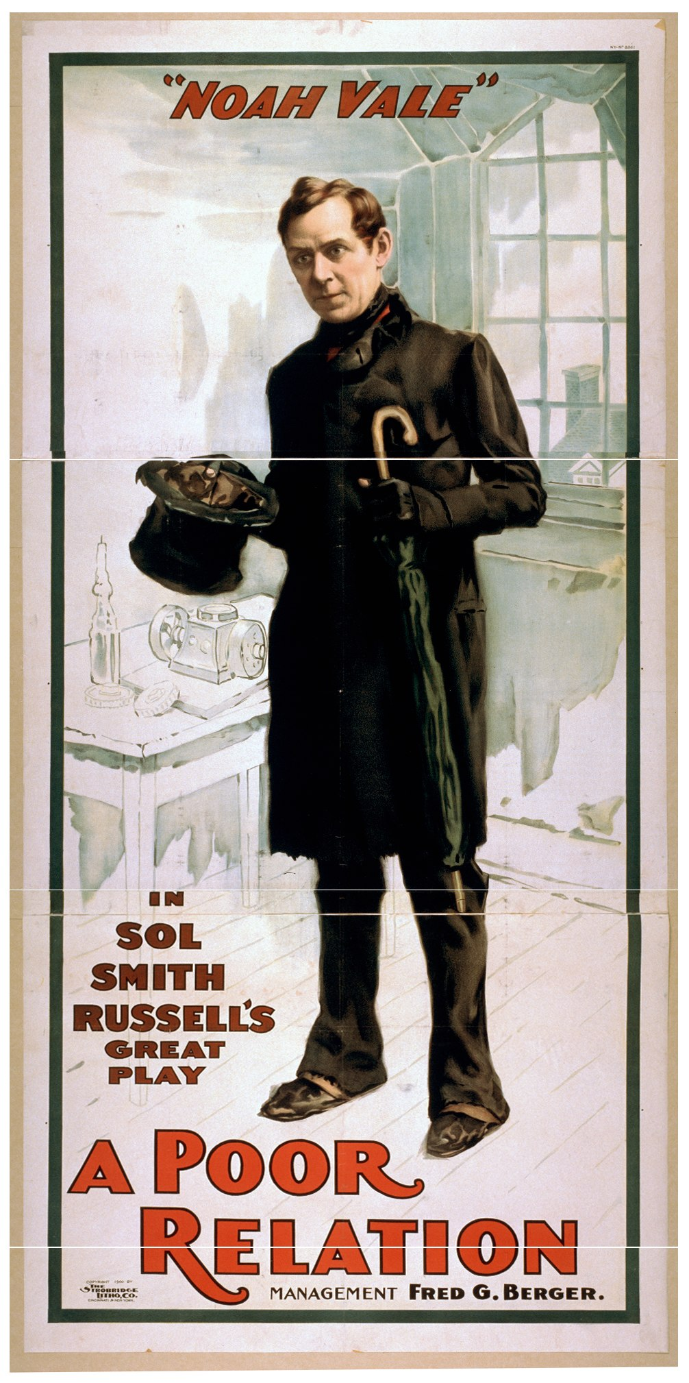 Title: "Noah Vale" [character in play] in Sol Smith Russell's great play, A poor relation Abstract/medium: 1 print : color lithograph ; sheet 211 x 102 cm. (poster format)